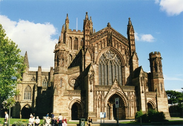 Hereford Cathedral